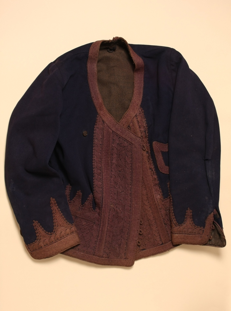 Anterija from the Museum in Smederevo